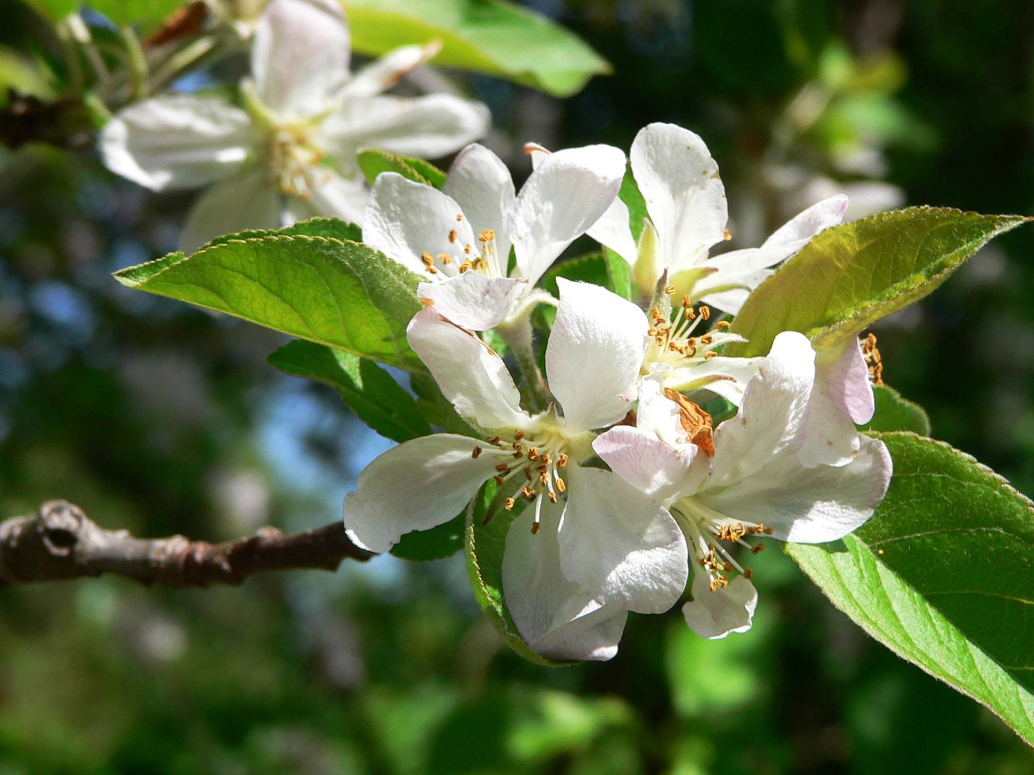 Flower of Gravenstein apple tree.Apple Blossom